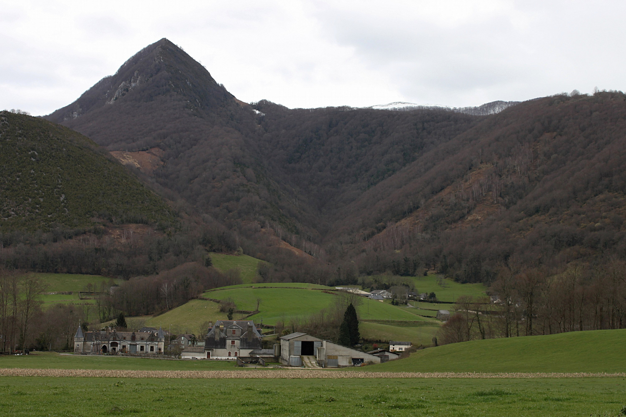 Pasturage at Arthez-d'Asson, in the Pyrenees, one of the communes that is famous for Ossau-Iraty sheep's-milk cheese.